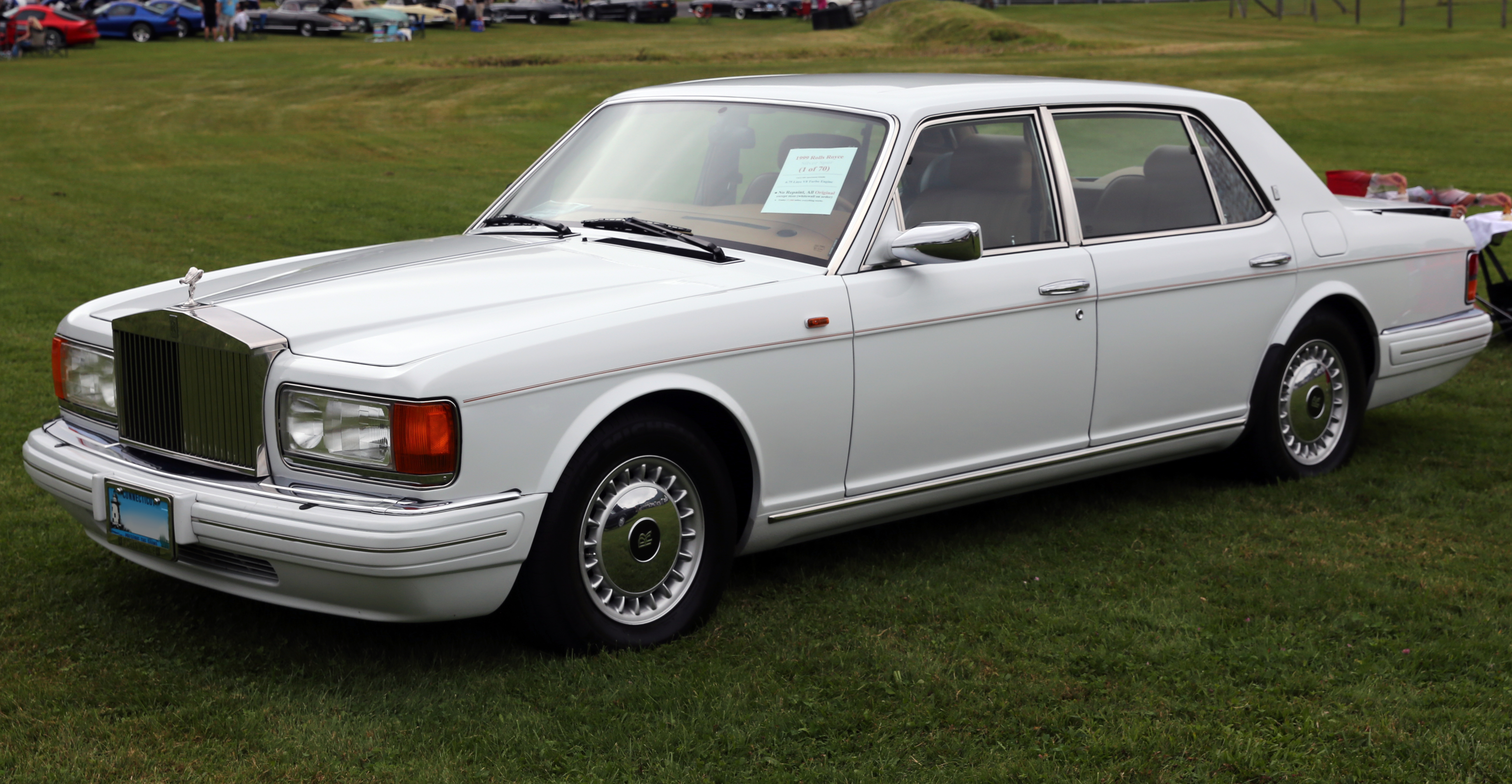 A 1999 Rolls-Royce Silver Spur seen at the 2014 Lime Rock Concours d'Élegance. These late Series IV Spurs have a low-pressure turbocharged engine (with the OBD-II diagnostics system) and twin airbags with seatbelt pre-tensioners. 75 were built in 1999, although the owner claims it's "1 of 70". Close enough.